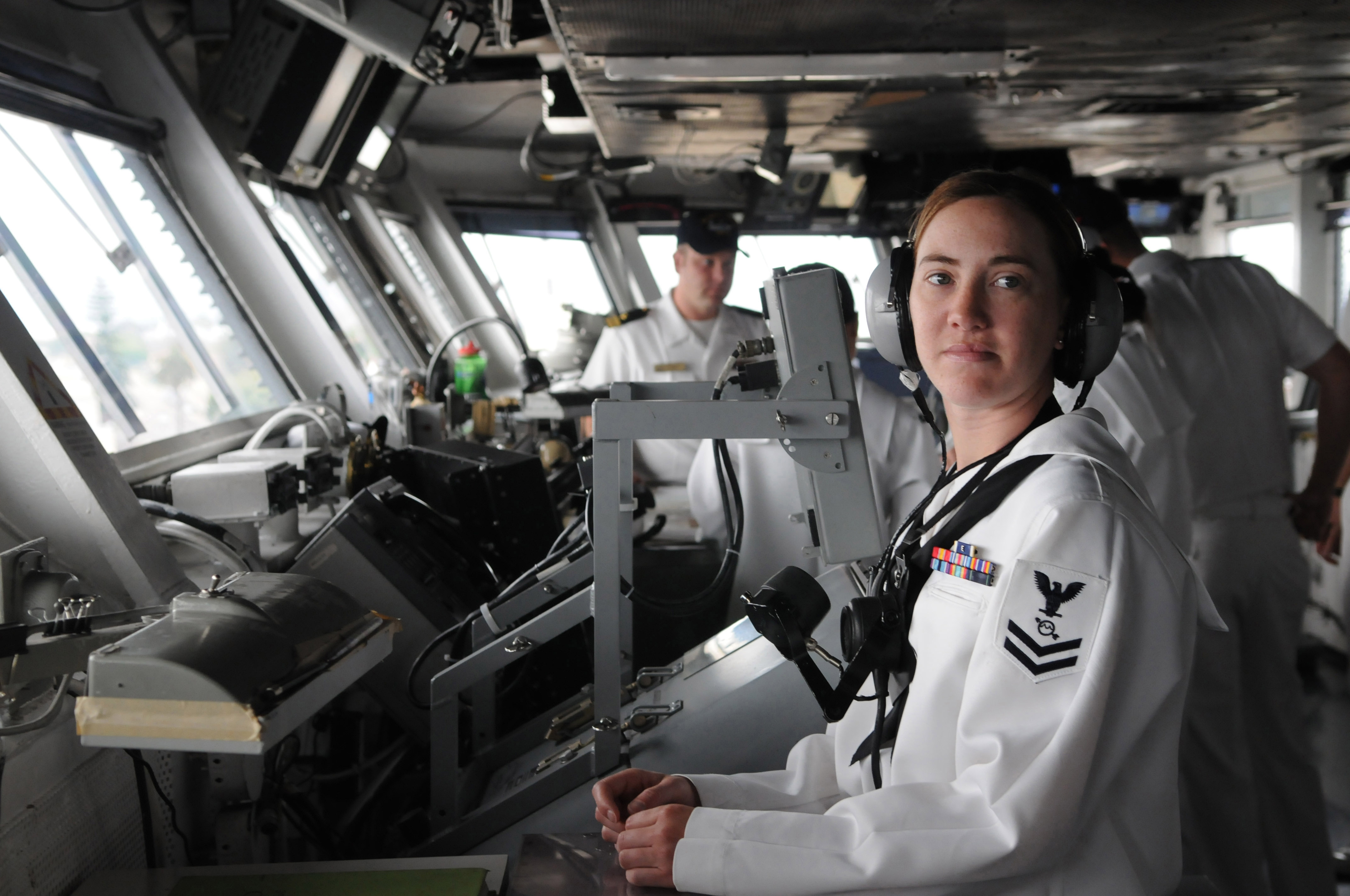 U.S. Navy Petty Officer 2nd Class Debra Snide stands watch in the pilot house of the aircraft carrier USS Ronald Reagan (CVN 76) as the ship prepares to get underway from San Diego on May 28, 2009. DoD photo by Petty Officer 3rd Class Torrey W. Lee, U.S. Navy.